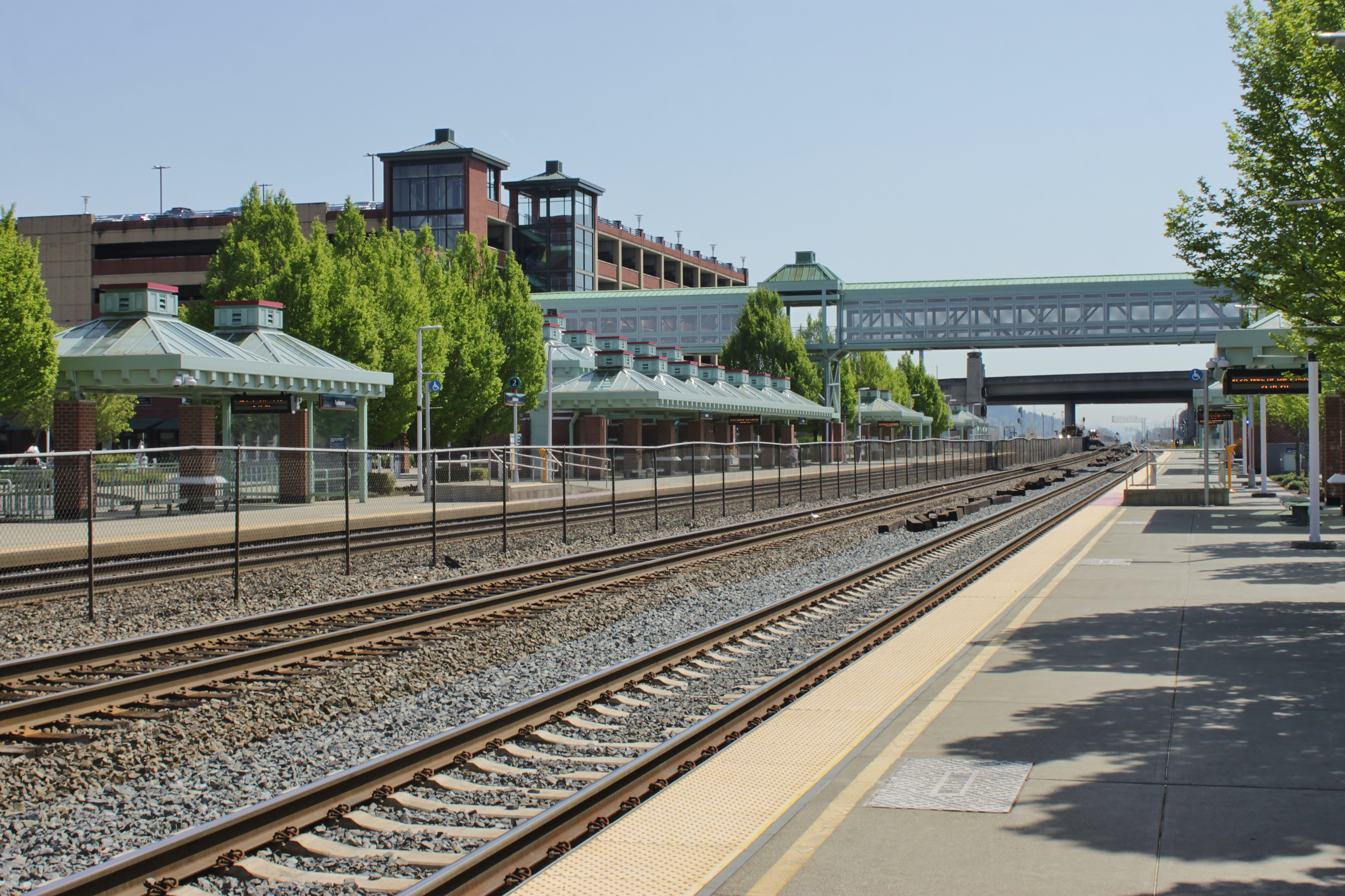 The west platform of Auburn station, a commuter rail station in Auburn, Washington.